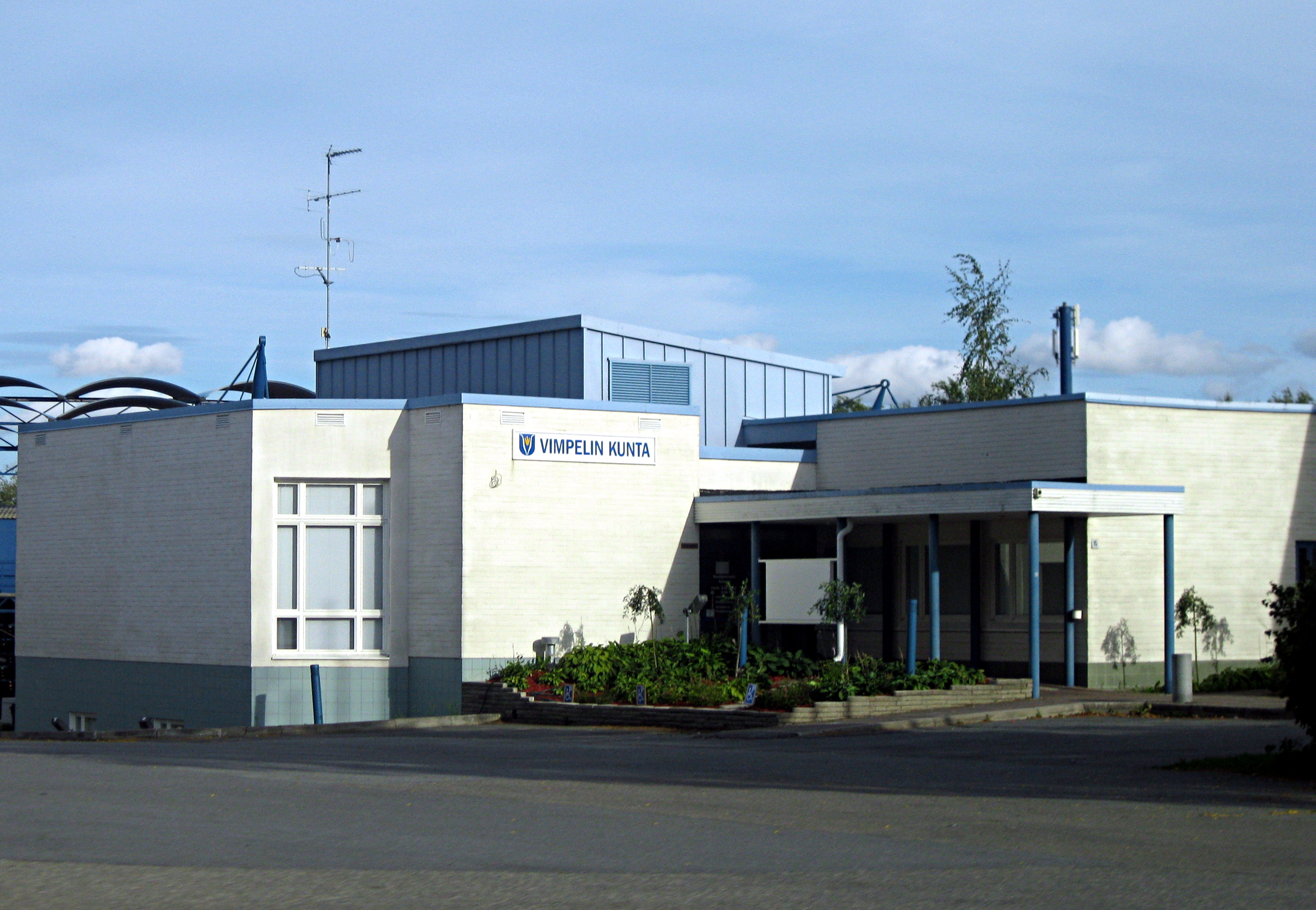 Vimpeli municipal office, September 2014.